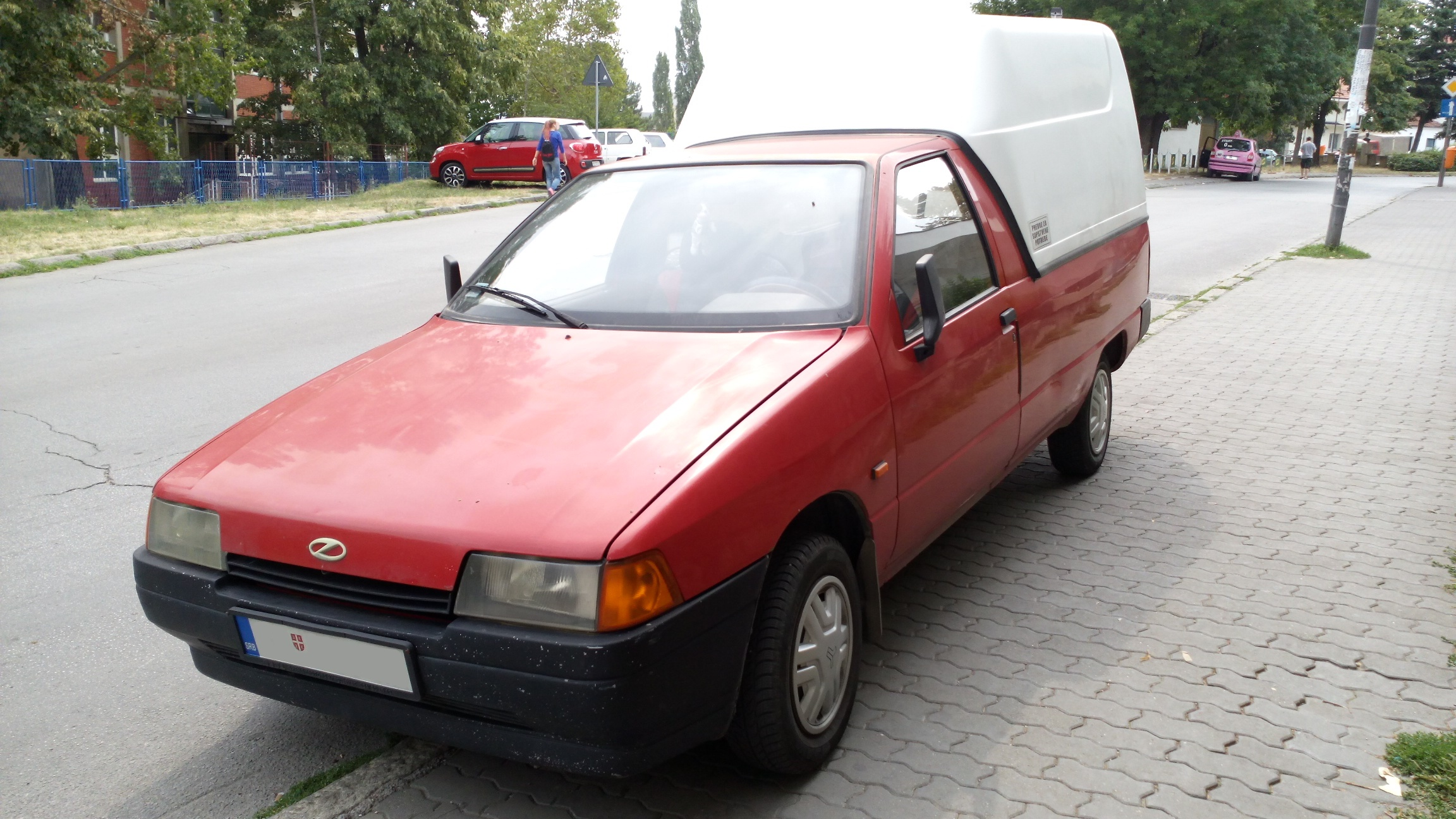 Zastava Florida Pick-Up in Kragujevac, Serbia